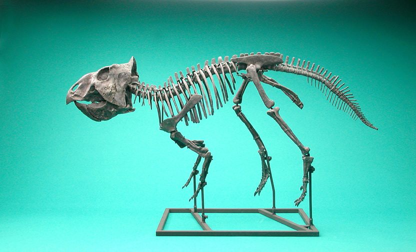 A Prenoceratops from Pondera Co., Montana now in the permanent collection of The Children’s Museum of Indianapolis.